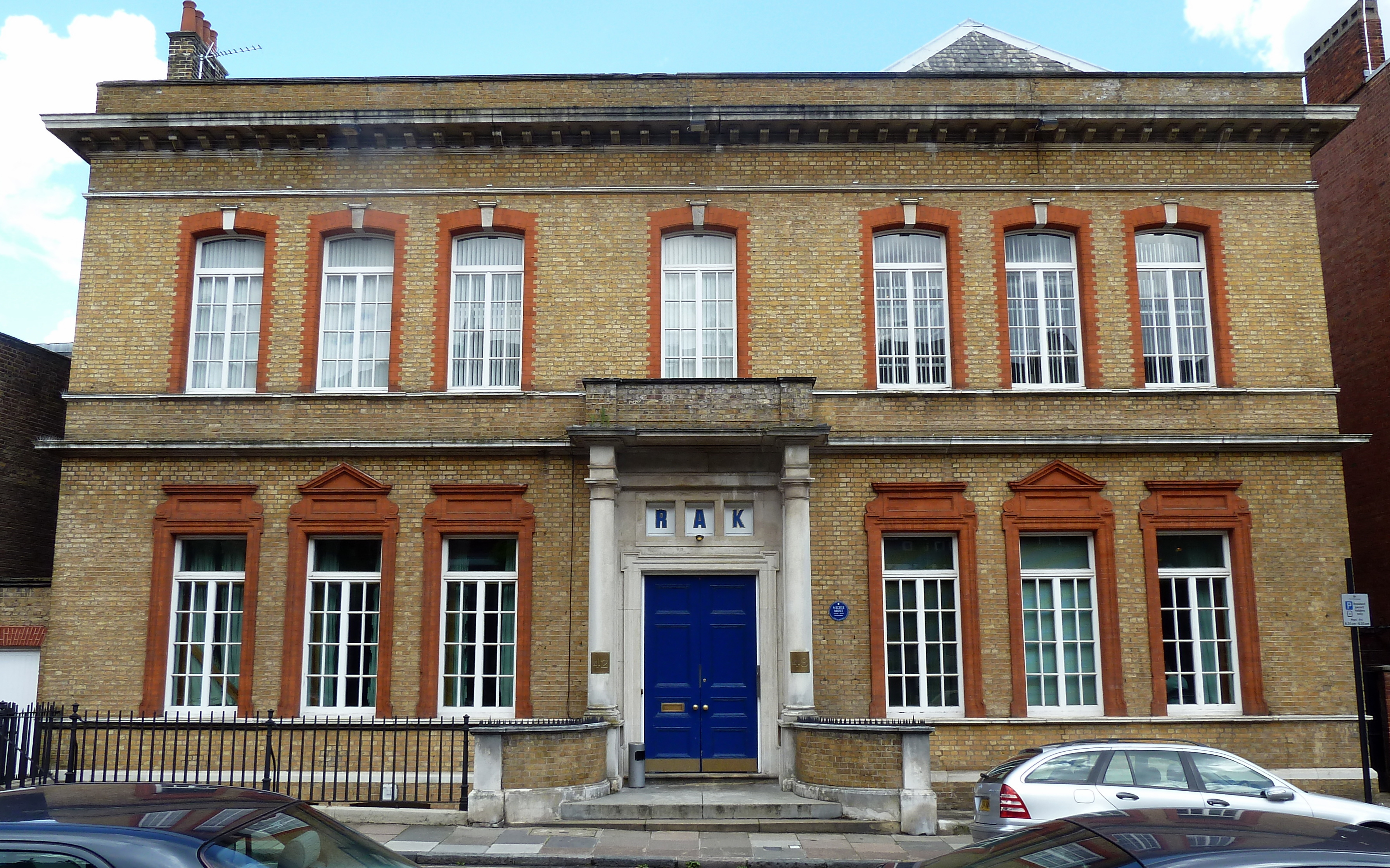 RAK Studios, 42-48 Charlbert Street, St John’s Wood, London NW8 7BU with plaque to Mickie Most